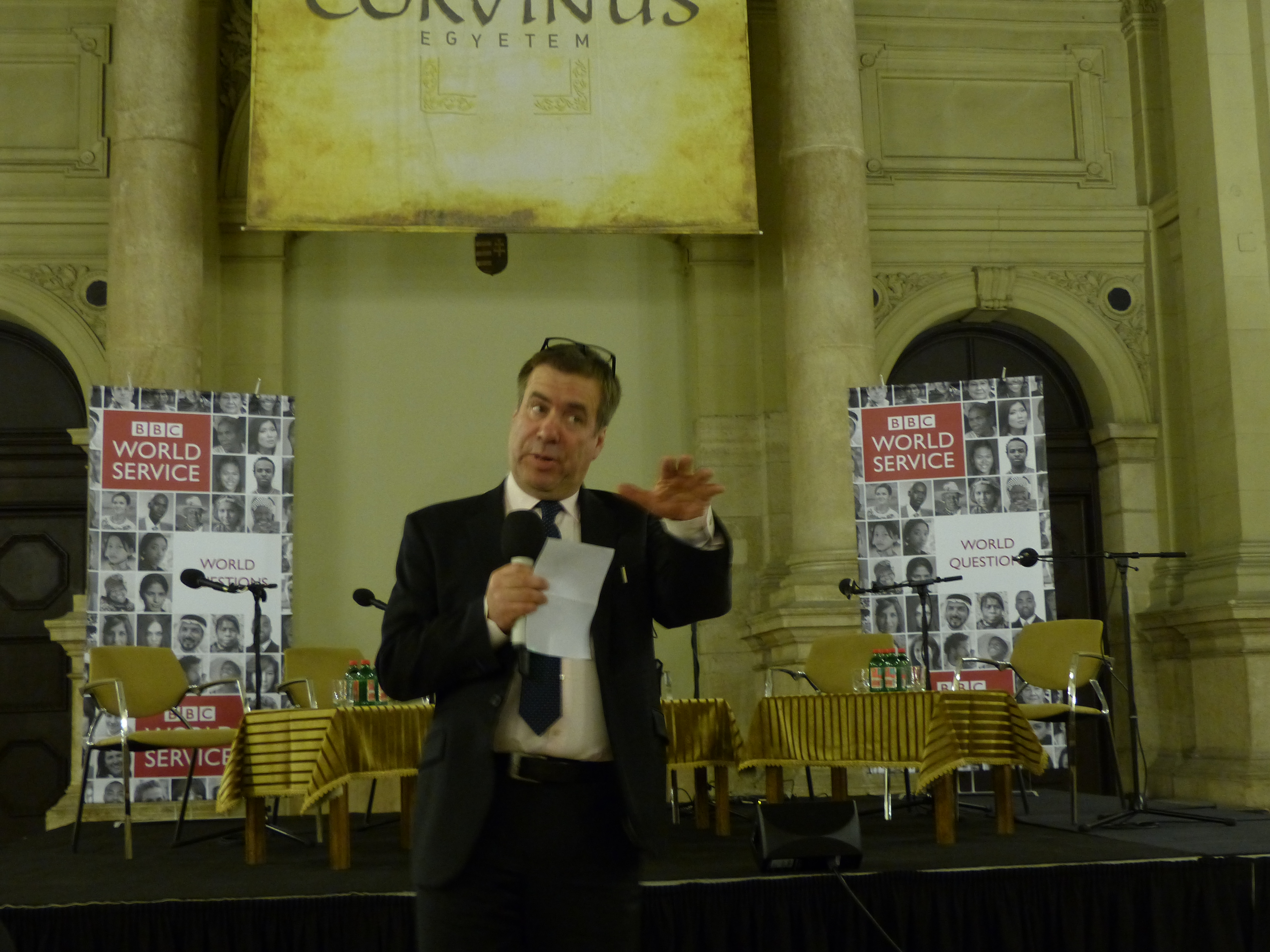 Senior Commissioning Editor, BBC World Service. The BBC World Service hold a debate on Wednesday, 5th of October, 2016. Corvinus University of Budapest as part of a series of debates across Europe, as the continent grapples with the issues of migration. Topics included Hungaryʼs October 2 referendum and EU quotas for refugee relocation. Broadcaster Jonathan Dimbleby invited members of the public to put questions to a panel of politicians and thinkers to debate the issues affecting Hungary - related to the October 2 referendum on refugee quotas - as well as the general situation of post-Brexit Europe today. The panel includes Kovács Zoltán, government spokesman at the Hungarian Prime Ministerʼs Office; Csák János, business leader and former Hungarian ambassador to the United Kingdom; and Professor Loukas Tsoukalis, a Greek expert on the European Union. The BBC announced. “The BBC World Service is the home of international debate, and this time we are bringing World Questions to Budapest in the wake of an important vote on EU migrant plans,” said Mary Hockaday, Controller of BBC World Service English. “We are delighted to be hosting this debate at Corvinus University, which was at the heart of the Hungarian uprising 60 years ago, providing a fitting location for a free and open debate. “Itʼs an honor to welcome BBCʼs World Questions program at our university,” commented András Lánczi, Rector of Corvinus University. “Corvinus University has always been an important space for discussing the public affairs of Hungary and the world. The issues on the agenda are indeed of historical significance, so we are looking forward to hosting a vivid conversation regarding the complex questions of economy, migration and security in Europe.” accessed 2016.10.10 accessed 2016.10.10